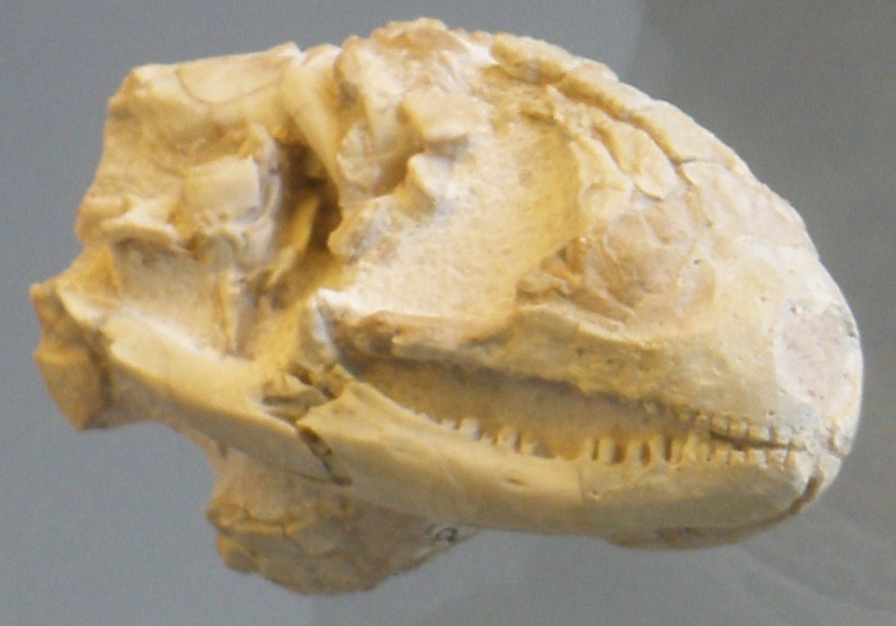 fossil peltosaurus